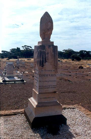 Grave of Australian explorer Ernest Giles in Coolgardie, Western Australia